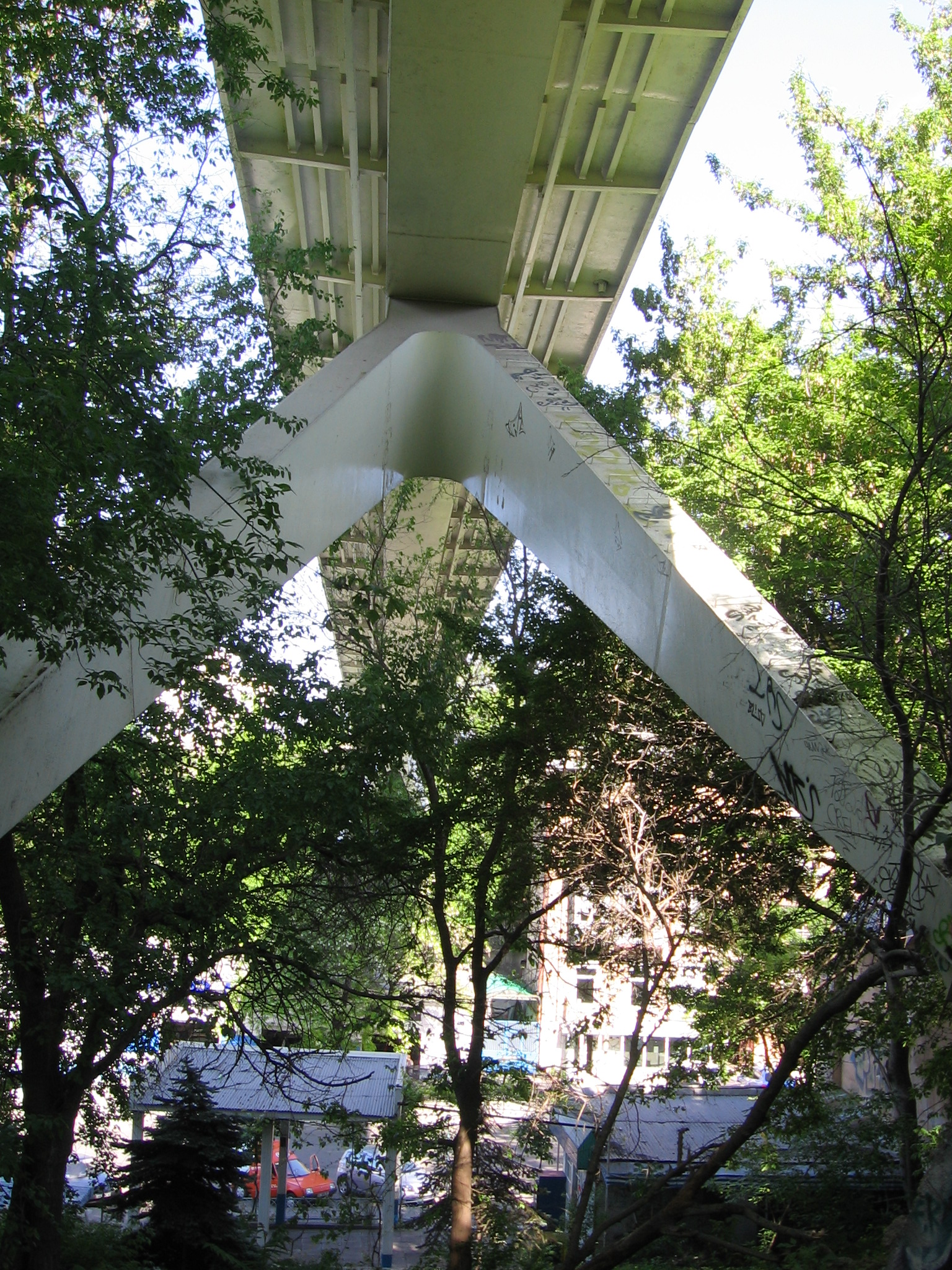 Bridge of Tyoshcha Odessa Тещин мост [?]